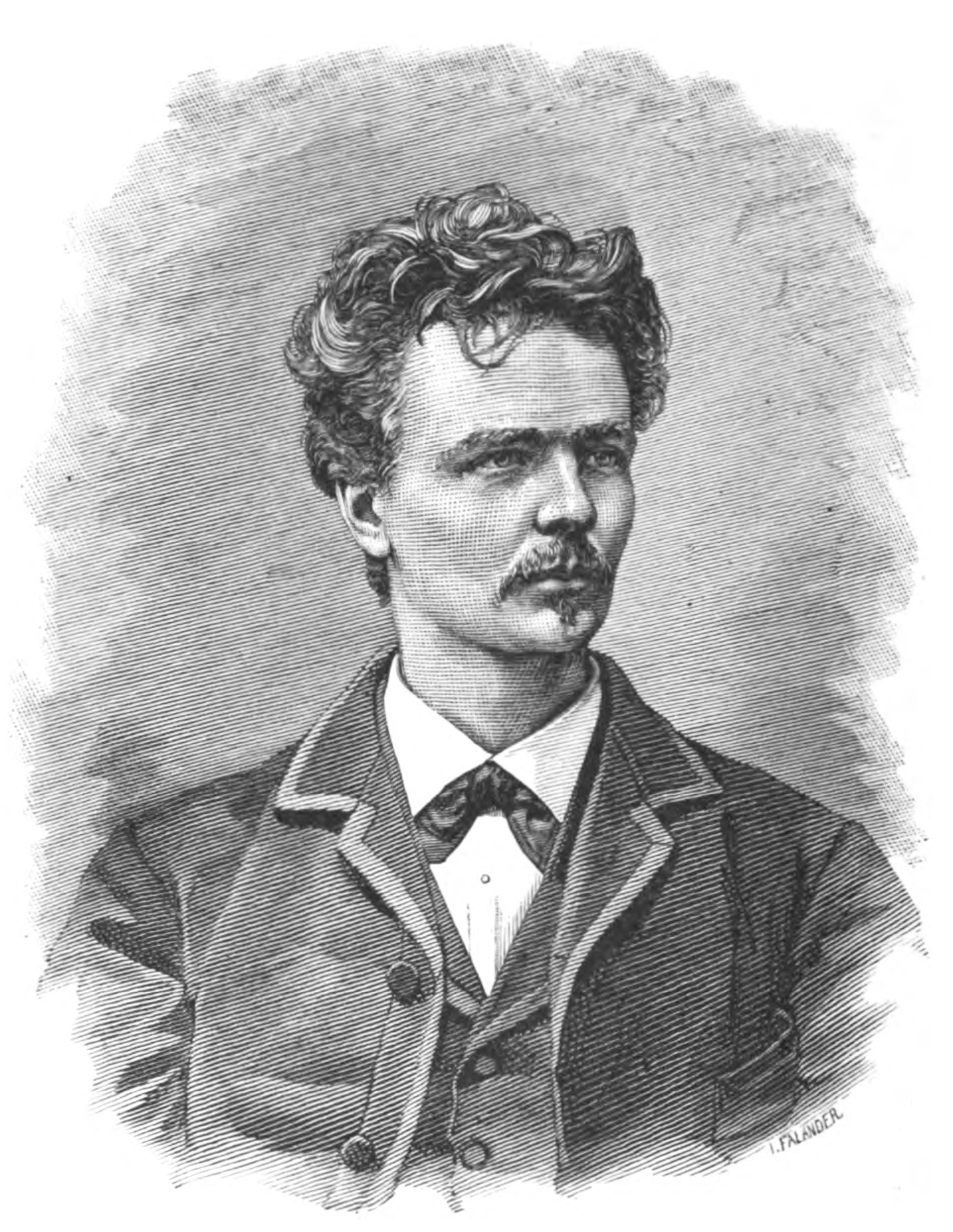 August Strindberg (1849-1912), Swedish author.